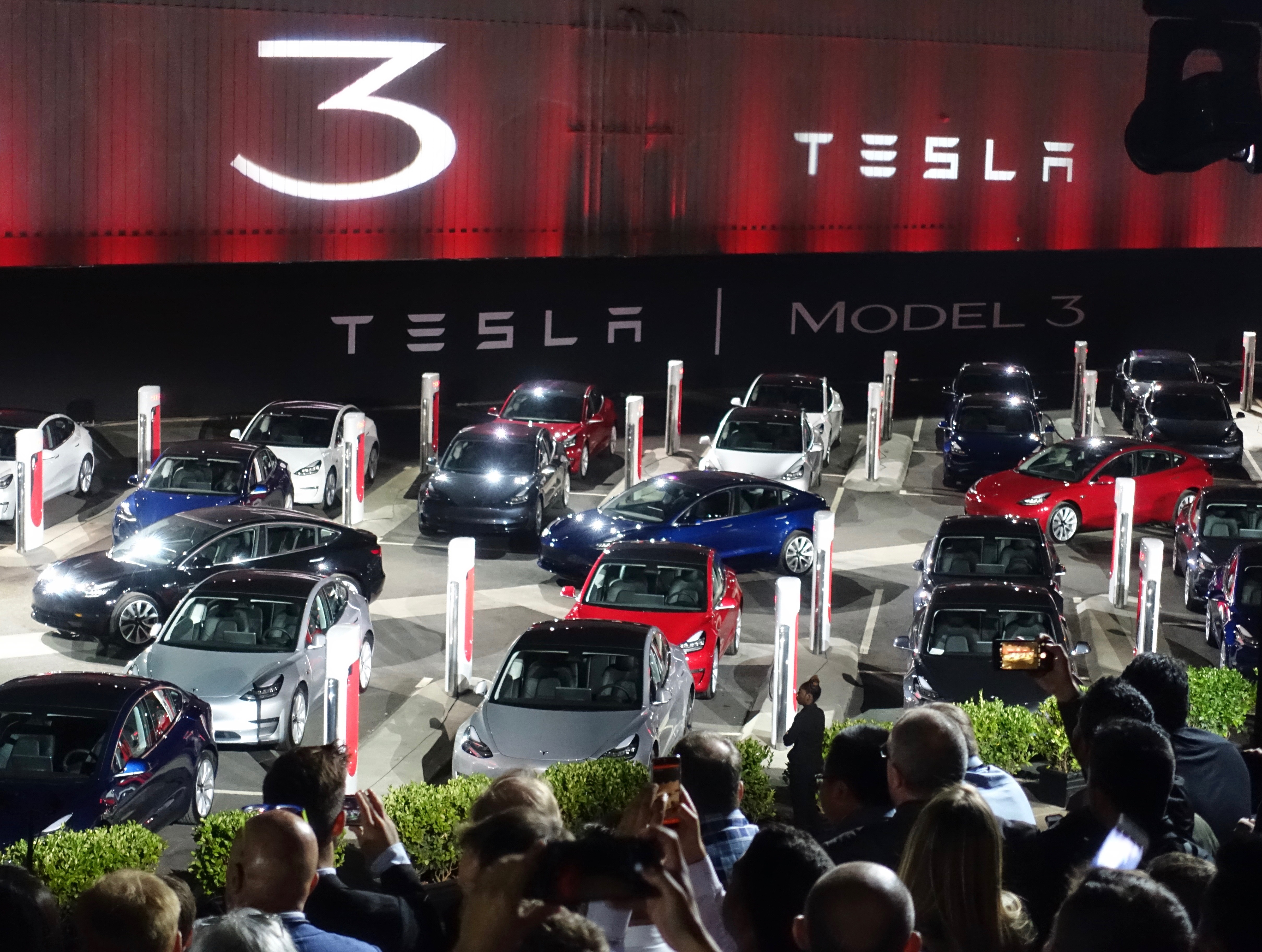 Tesla event for the delivery of the first 30 production vehicles of the new Tesla Model 3.